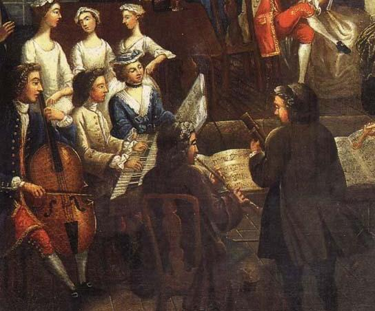 Chamber musicians perform trio sonata